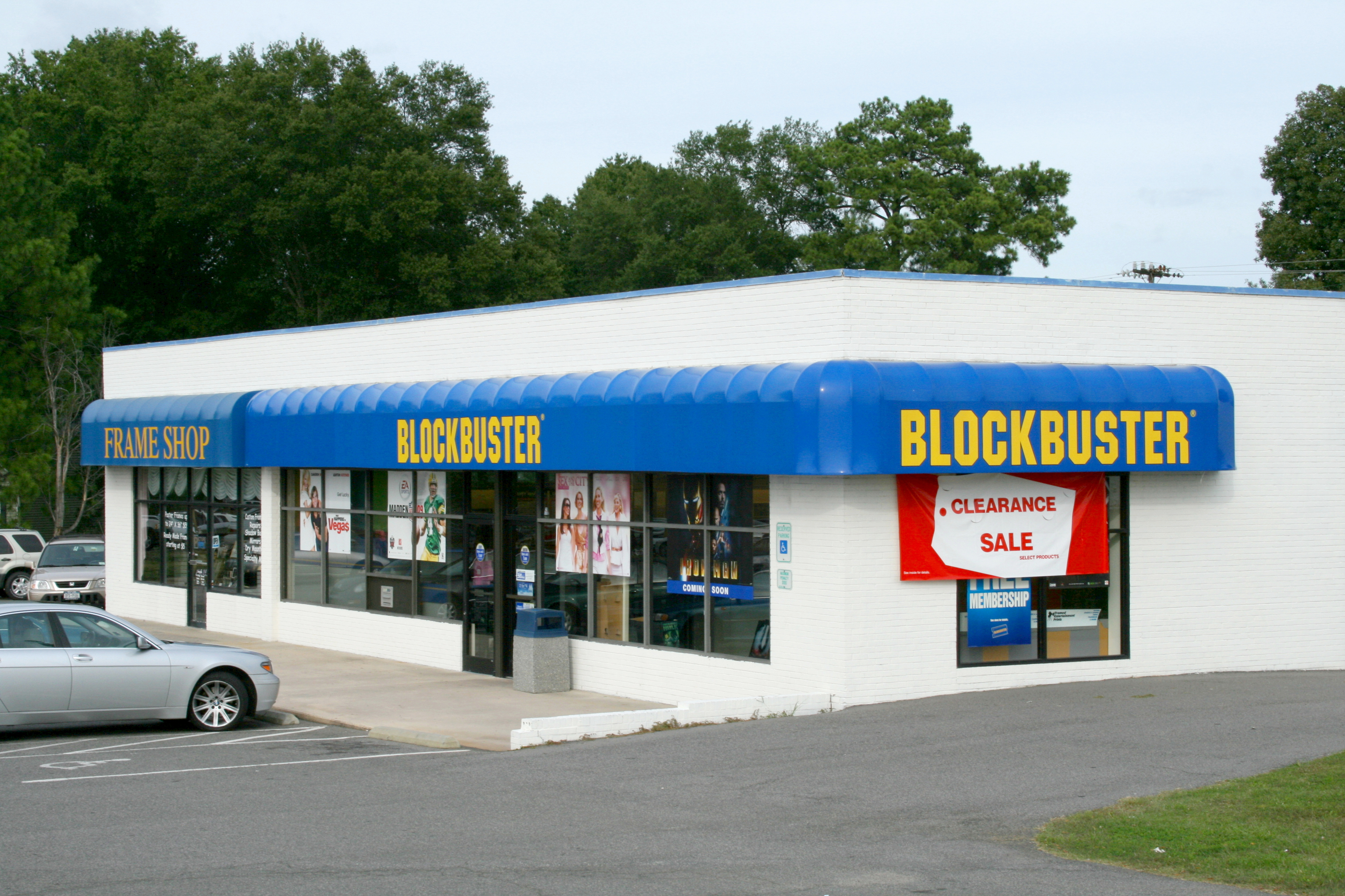 Blockbuster outlet at 3438 Hillsborough Road in Durham, North Carolina. It shares a building with a Frame Shop.